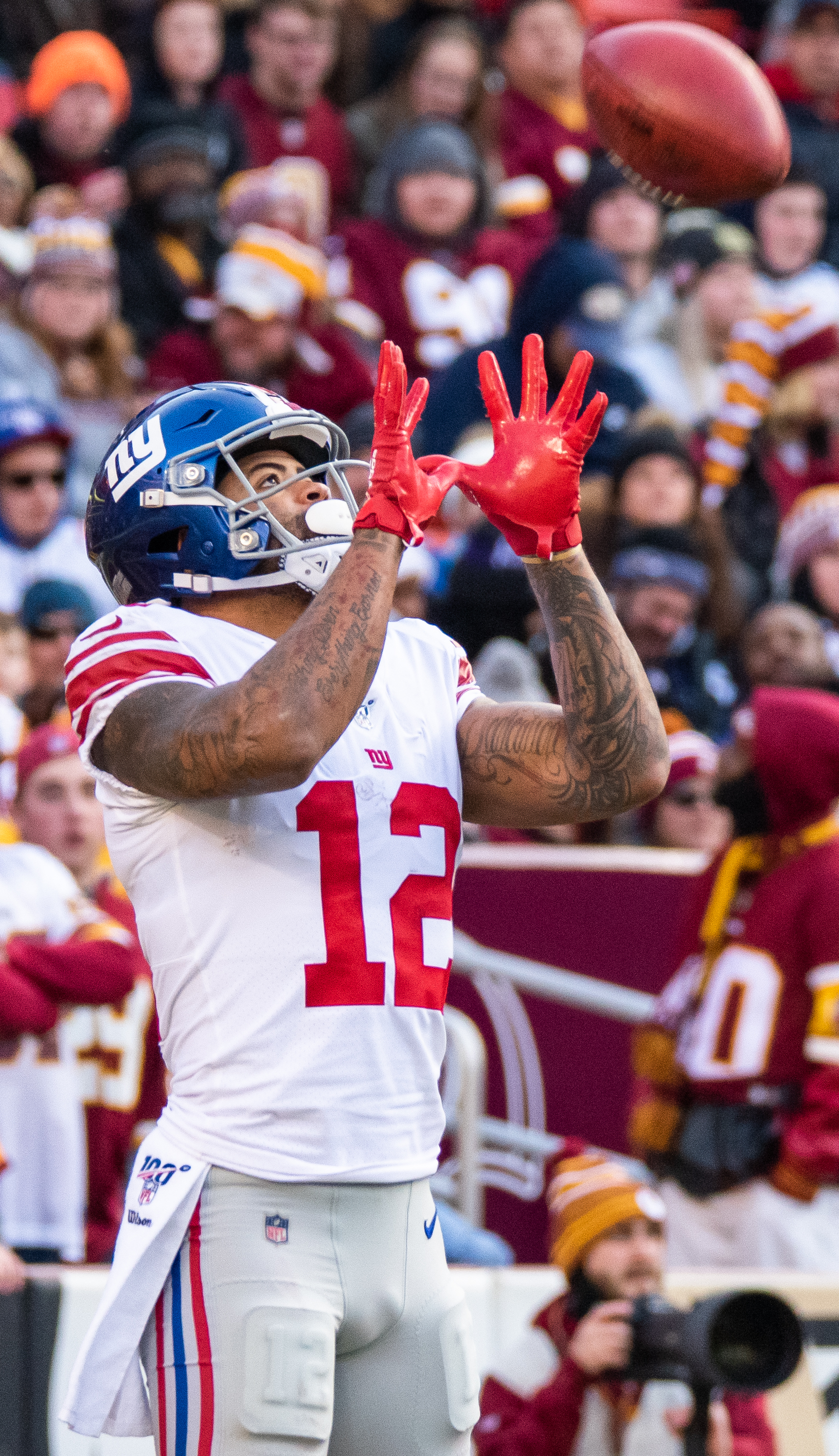 In 2019